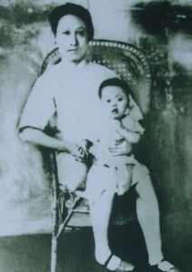 Zhao Yiman and her son Chen Yexian (Ning'er)